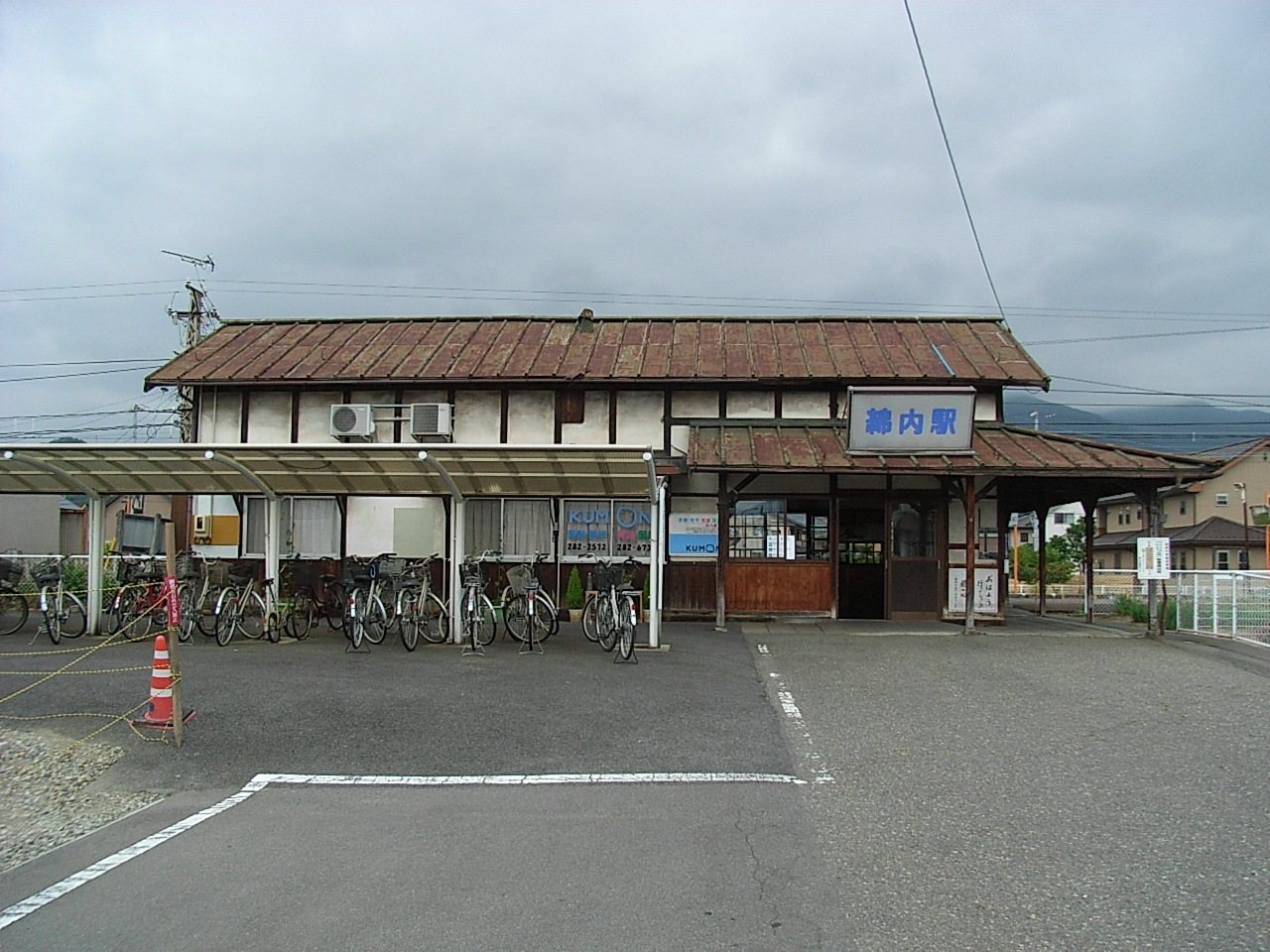 Watauchi Station on Nagano Electric Railway Yashiro Line. (6472-2,Wakahowatauchi,Nagano-shi,Nagano-ken,JAPAN)